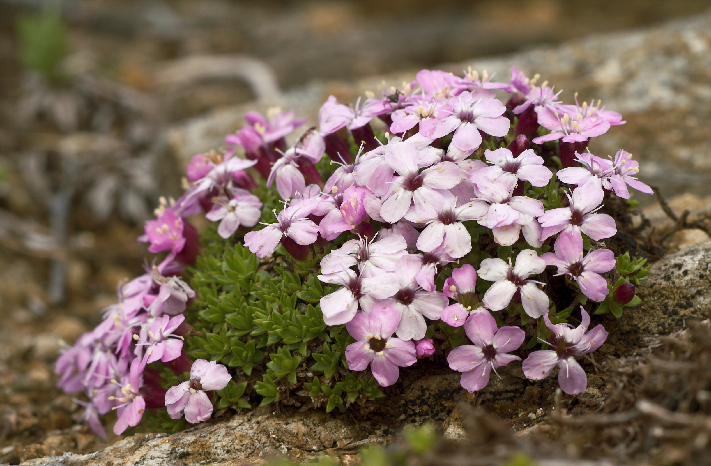 Moss campion, Bodø, Norway